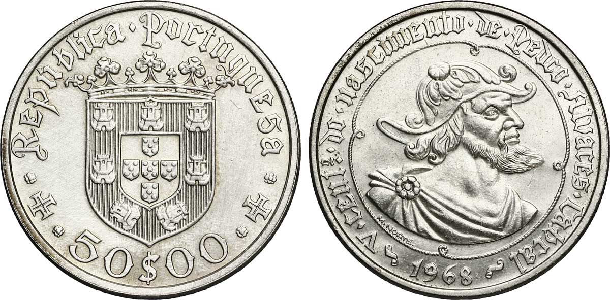 50 Escudos célébrant le 500e anniversaire de la naissance de Pedro Alvares Cabral, 1968